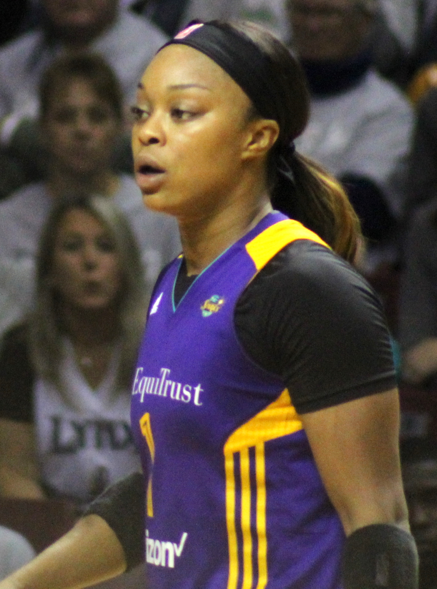 Odyssey Sims of the Los Angeles Sparks during the 2017 WNBA Finals